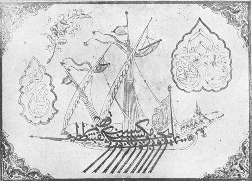 Amulet of sailors of Osmanian empire: the calligraphic names of Seven Sleepers and their dog.